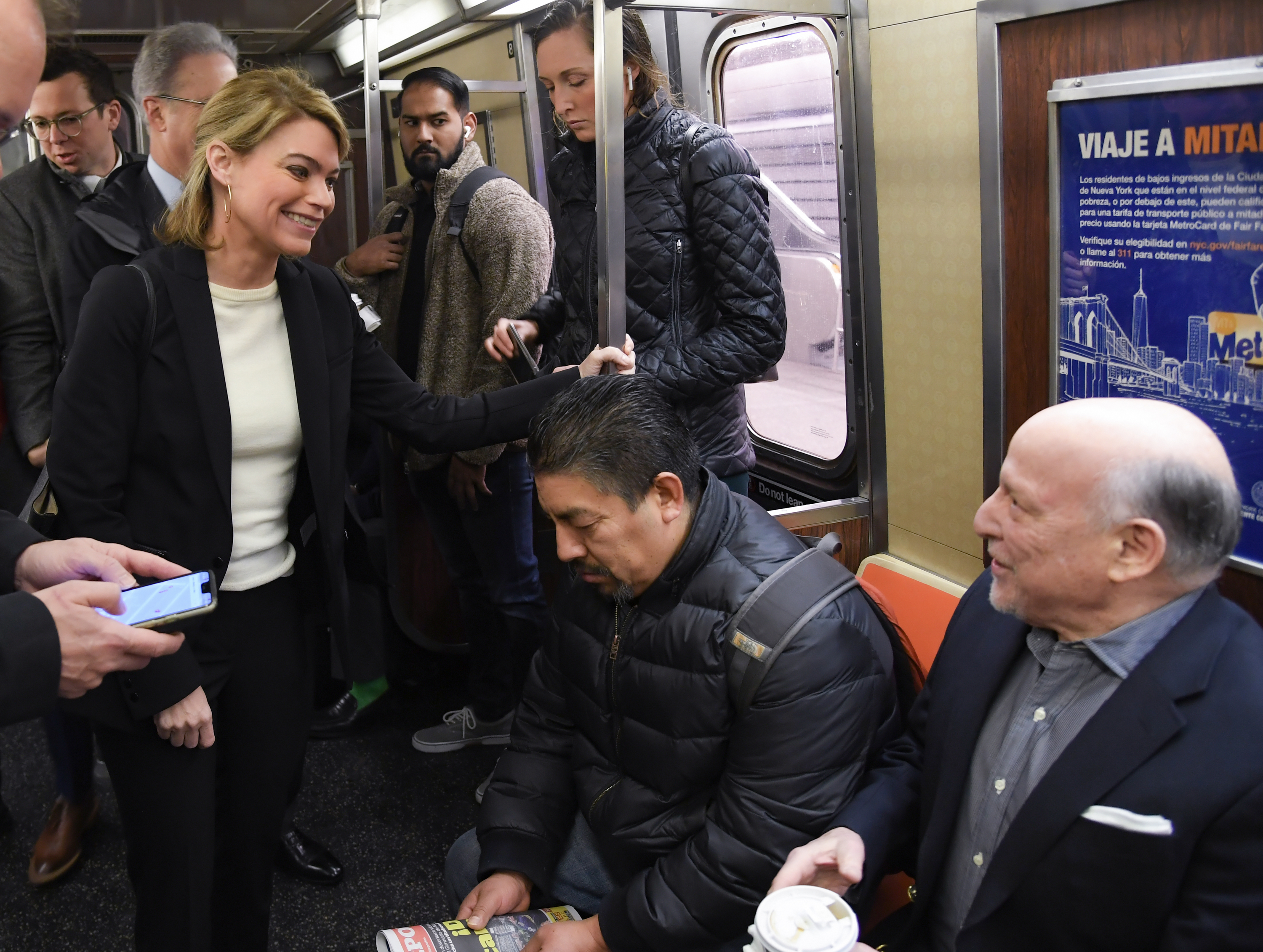 Interim MTA New York City Transit President Sarah Feinberg rides to Headquarters on Mon., March 9, 2020, her first official day on the job. (Marc A. Hermann / MTA New York City Transit)